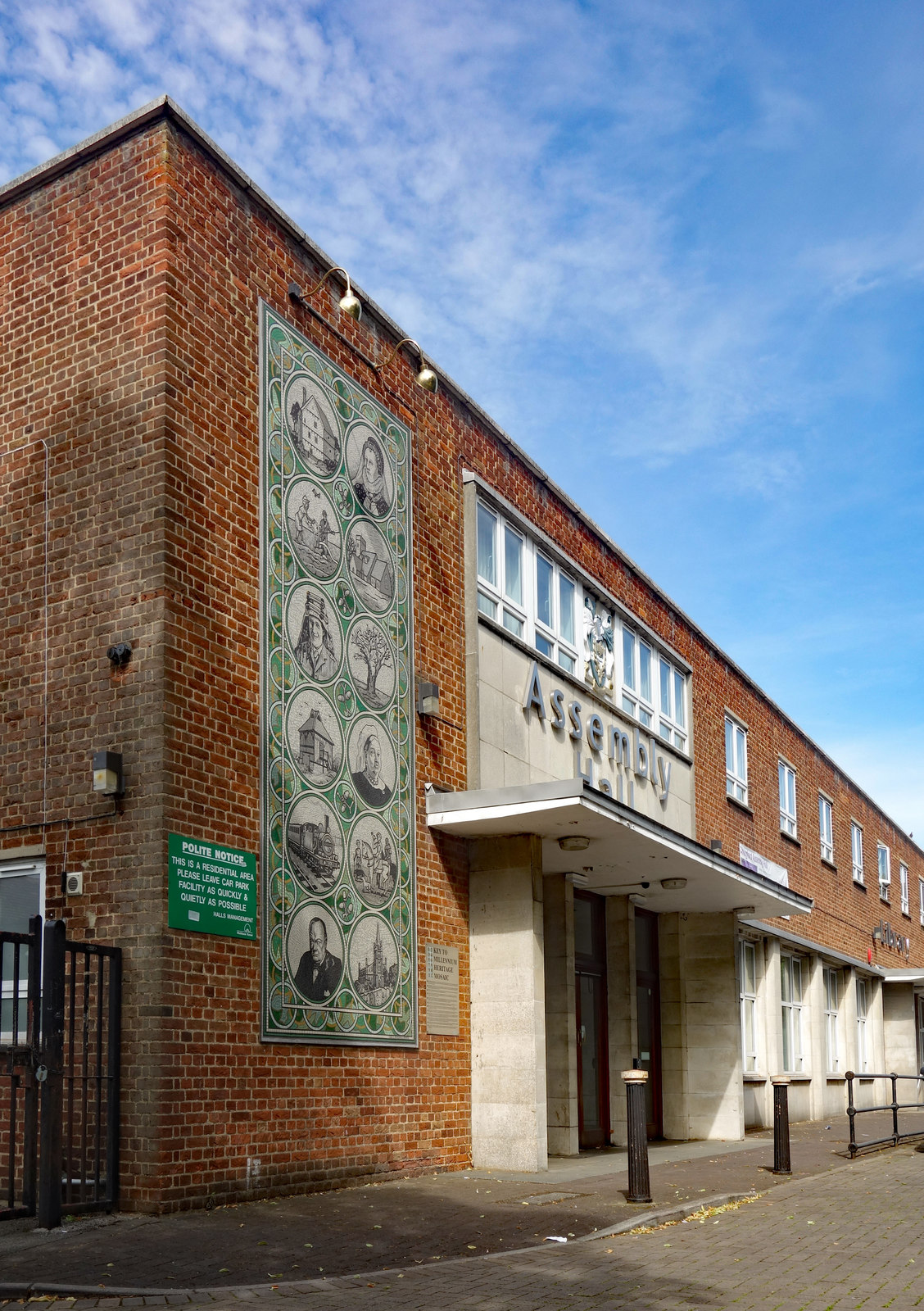 Chingford Assembly Hall and Library, Chingford